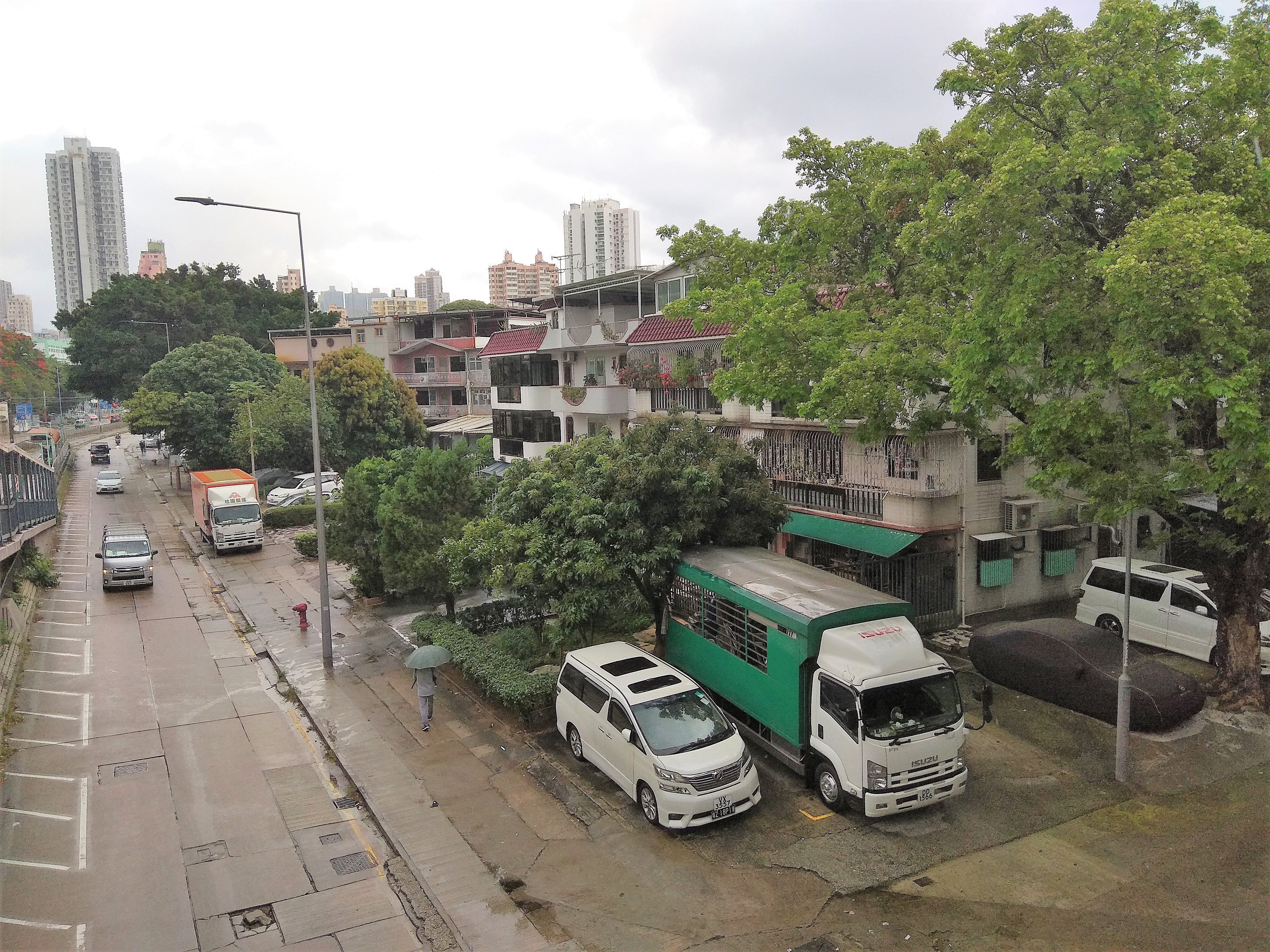 Shui Pin Tsuen